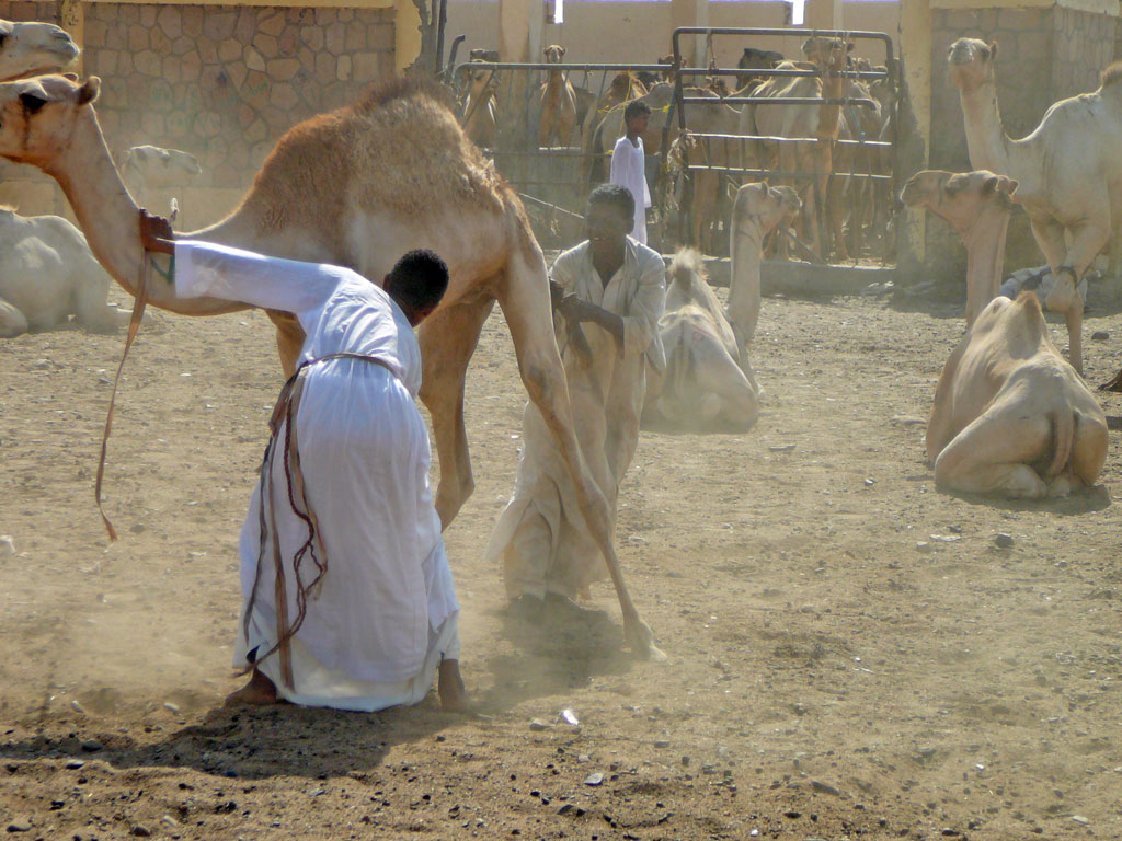 Camel market Asch-Schaltin / Southeast-Egypt (Serie 8/10)